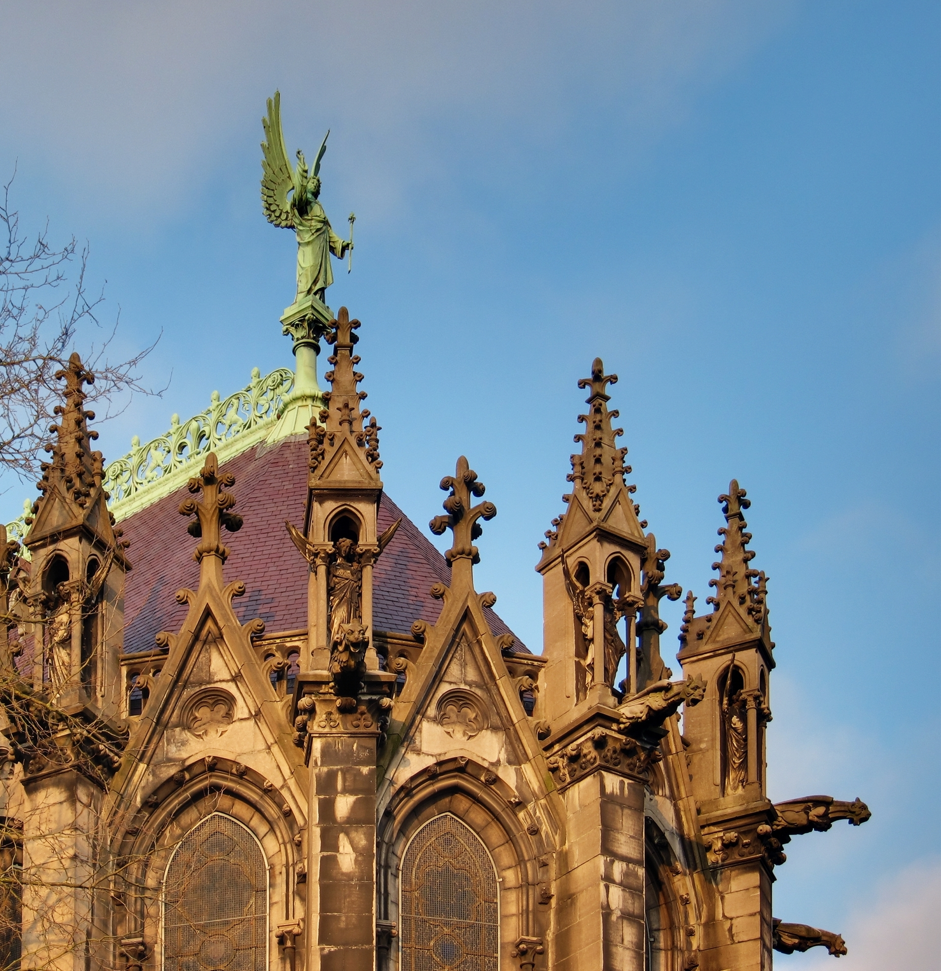 The archangel of the apse of the Cathedral Notre-Dame-de-la-Treille in Lille.